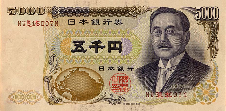 Series D 5000 Yen Bank of Japan note. Portrait: Nitobe Inazo. First issued in 1984. Issue suspended in 2007. Legal tender. 155mm x 76mm.